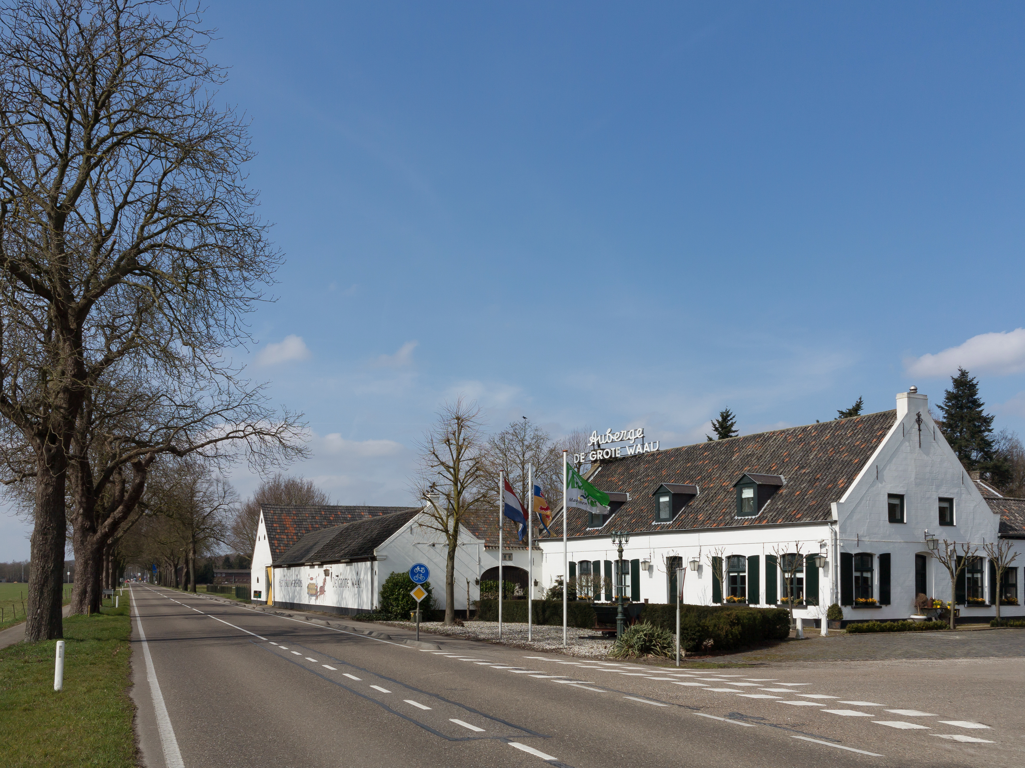 Well, hostel: de Grote Waai